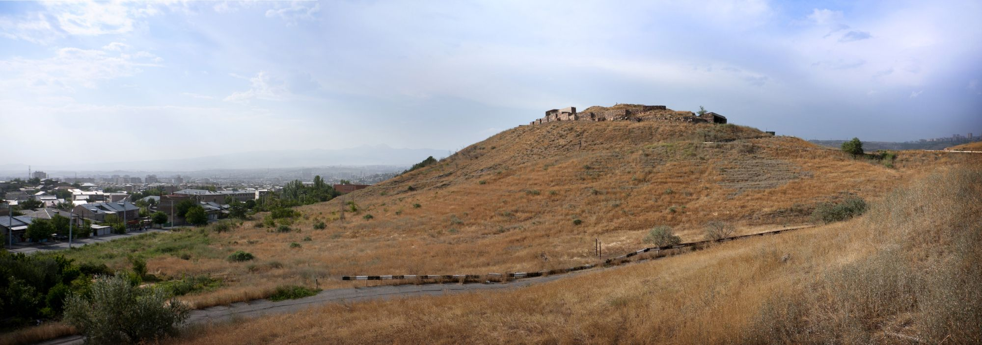 Erebuni Fortress